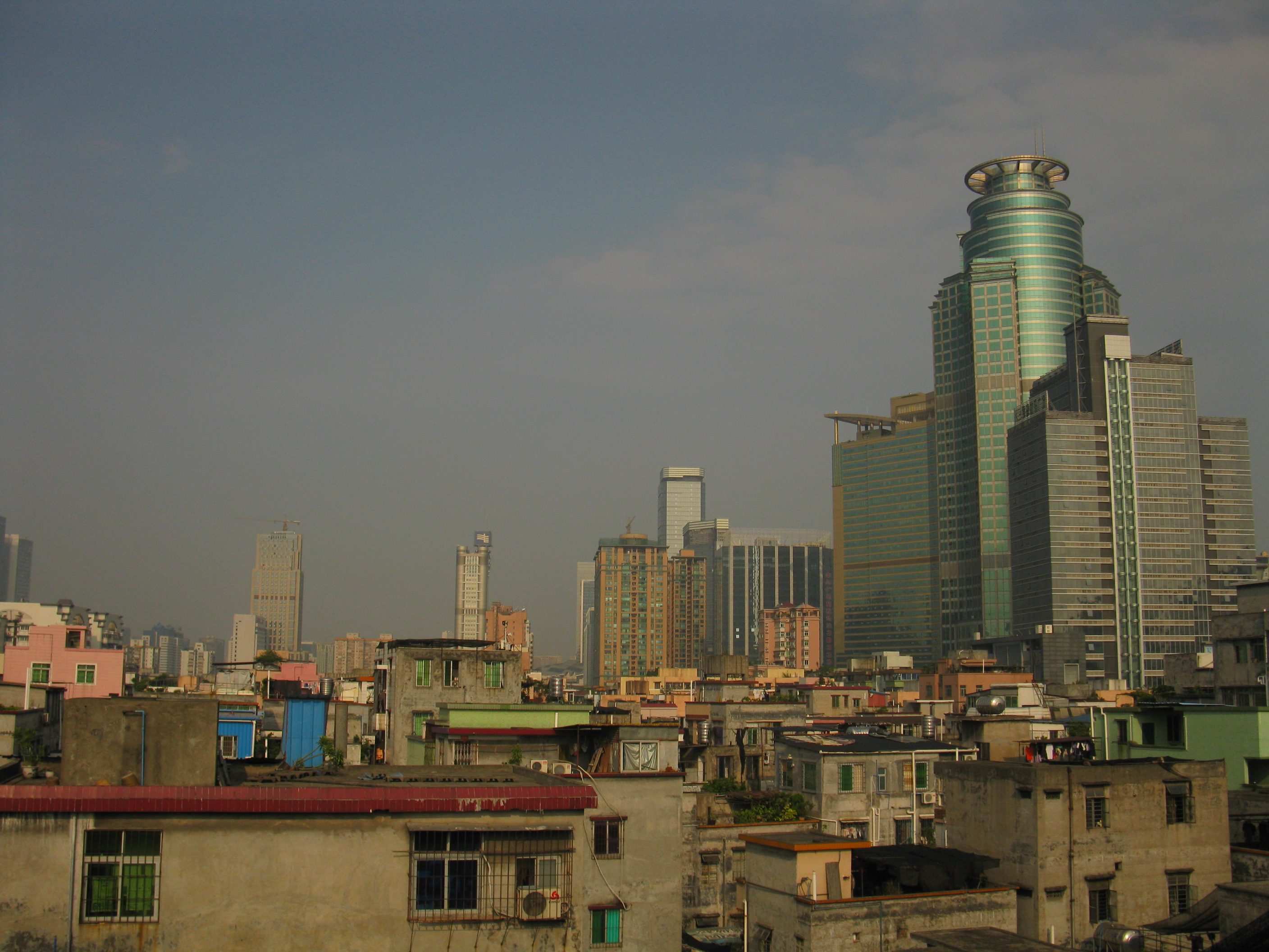 a view from rooftop of my tenement building at Shipai Village